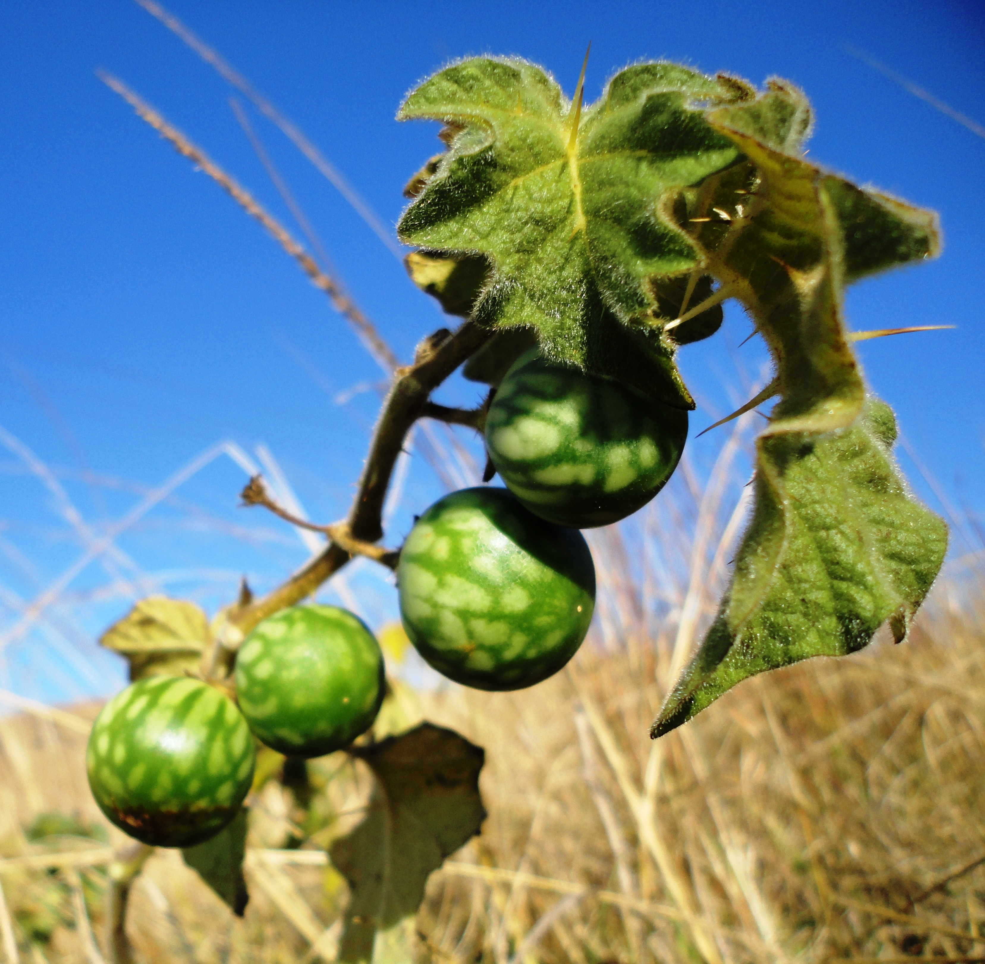 Foliage and fruit of an Indian nightshade at Louwsburg, KwaZulu-Natal